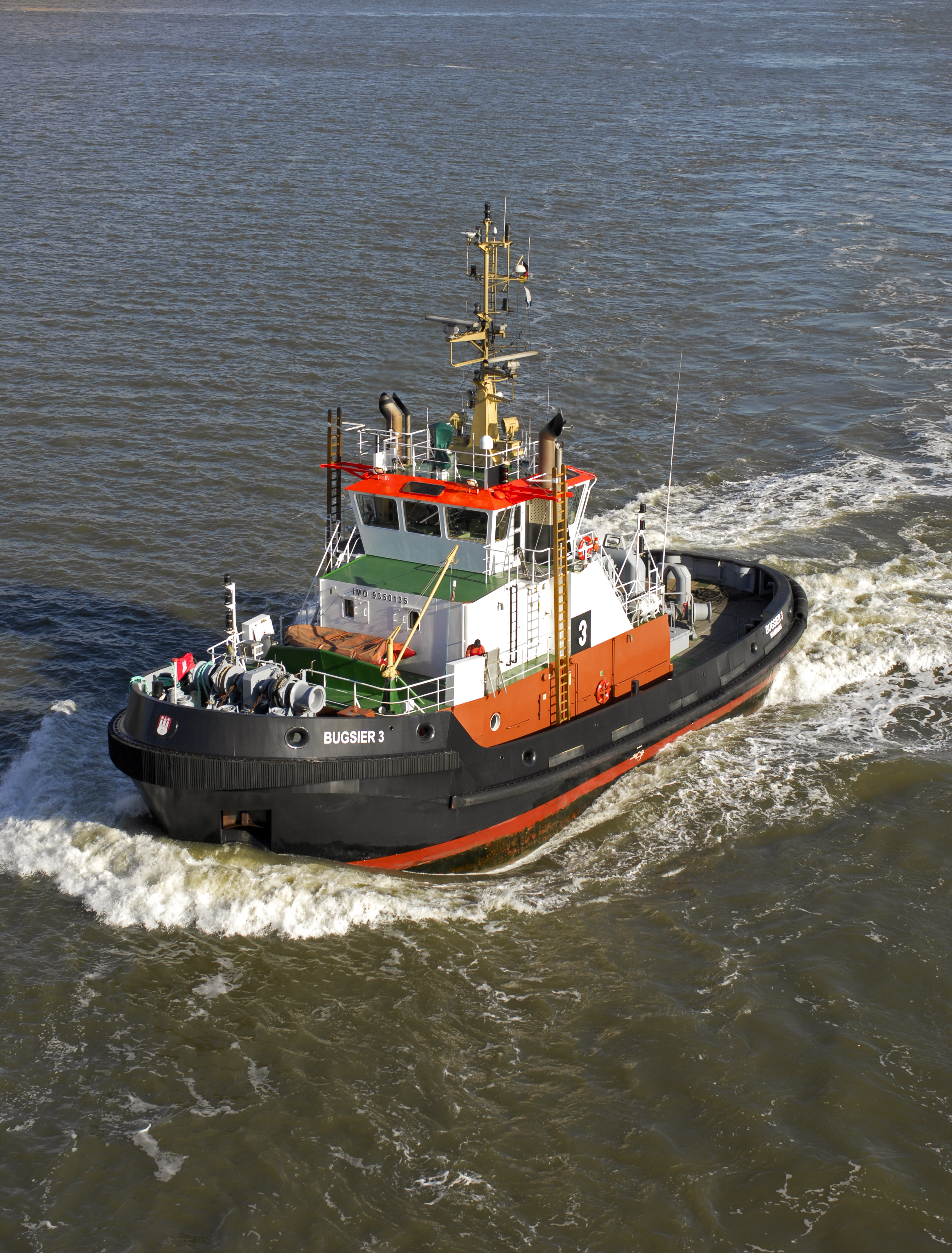 Tugboat (Bugsier 3)in the Port of Bremerhaven